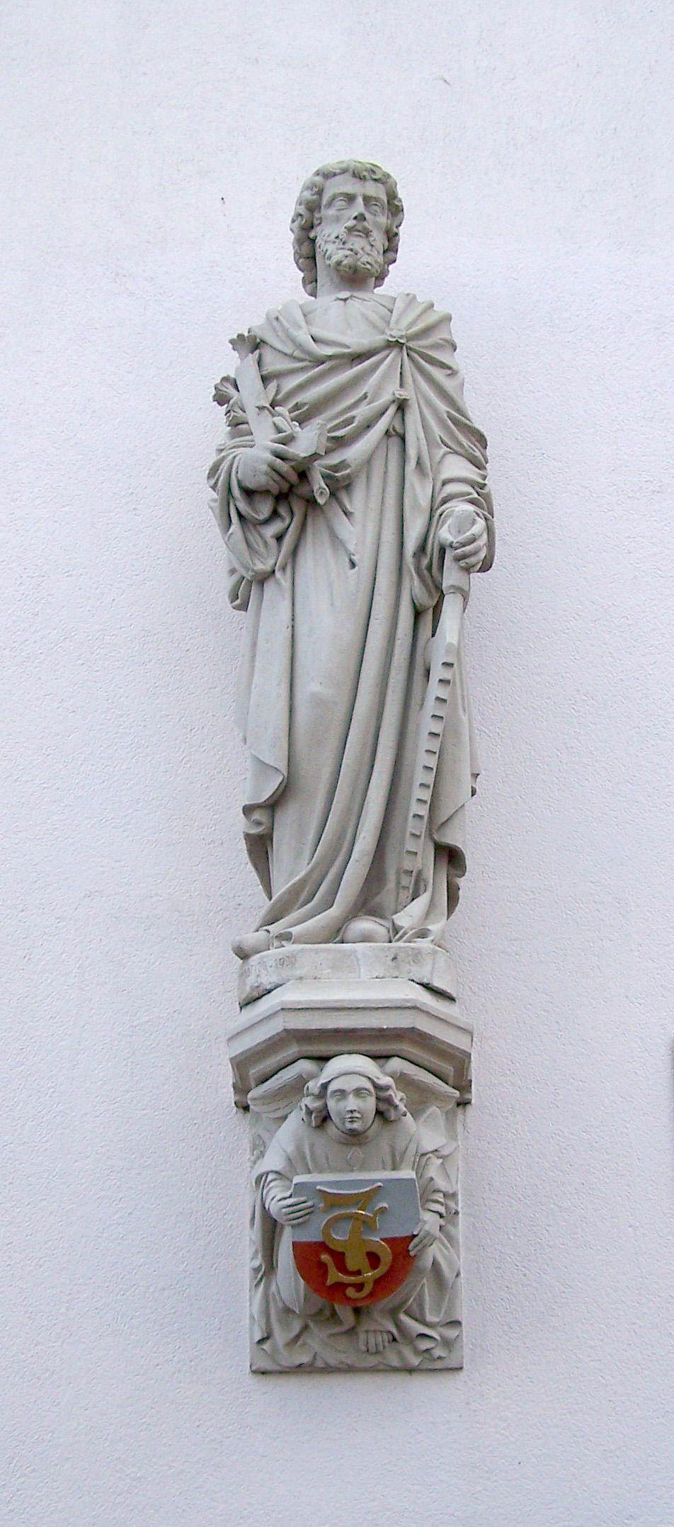 Statue of Saint Joseph. Placed against the wall at the Brinkpoortstraat (north of the Singelstraat) in Deventer in 1988. Made by W.G. van Poorten in 1900 and it used to be part of unionbuilding of the "Saint Joseph" union of craftsman.